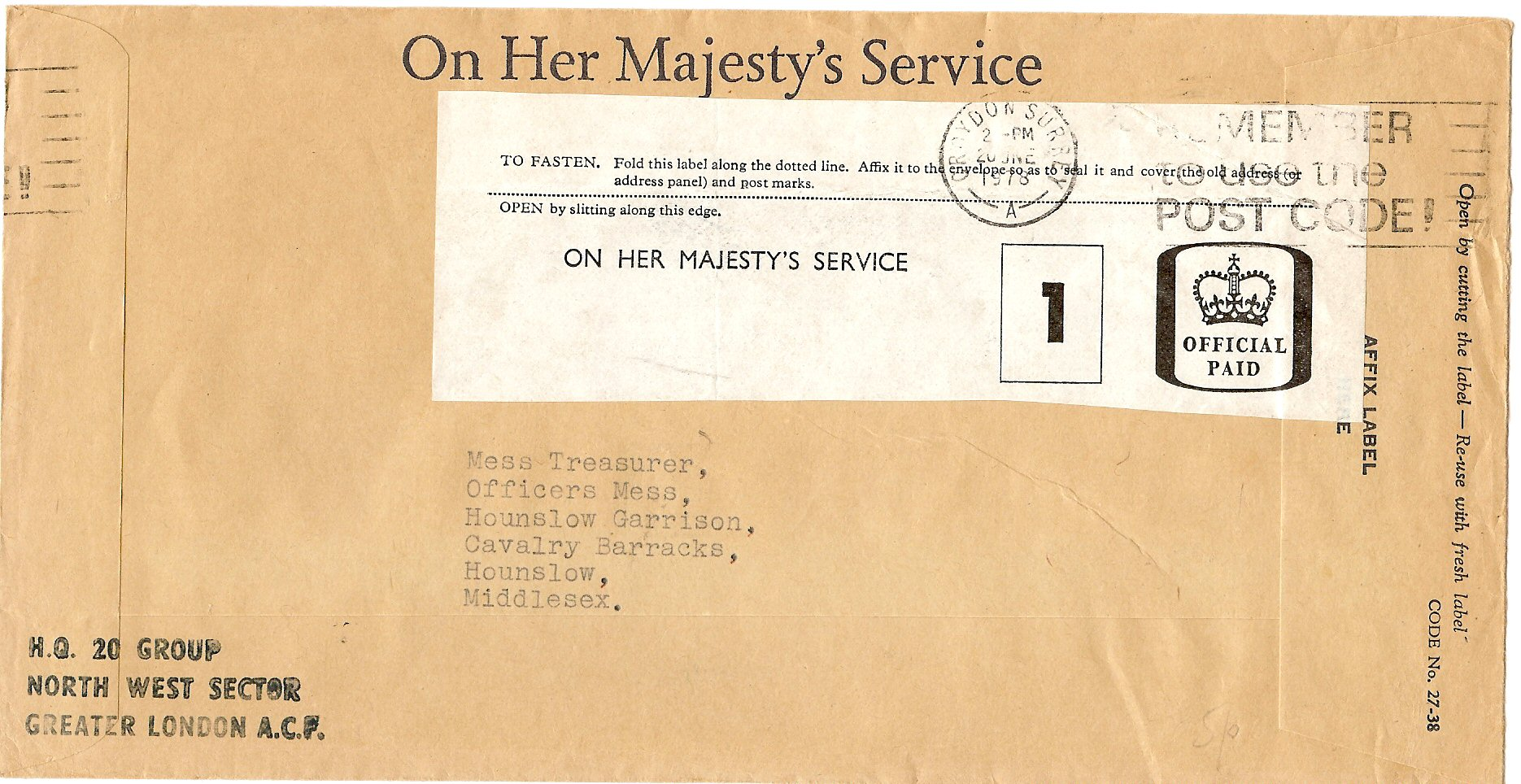 Official Paid Envelope from Great Britain circa 1978